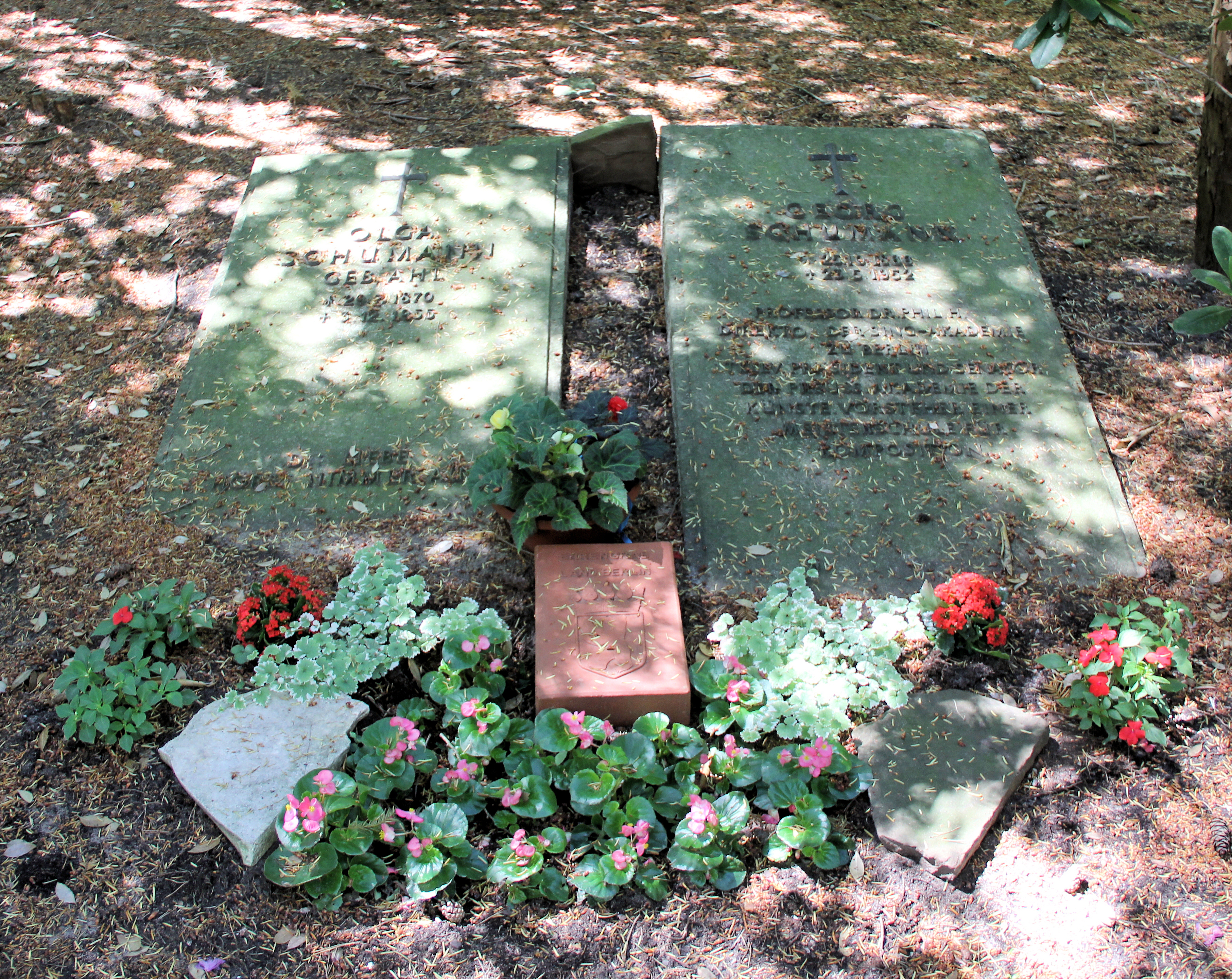 "Ehrengrab" (grave of honor), Georg Schumann, Thuner Platz 2-4, Berlin-Lichterfelde, Germany Koordinate:52°25′24″N 13°17′45″E / 52.42333°N 13.29583°E